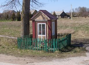 Laiviai, Kretinga district, Lithuania